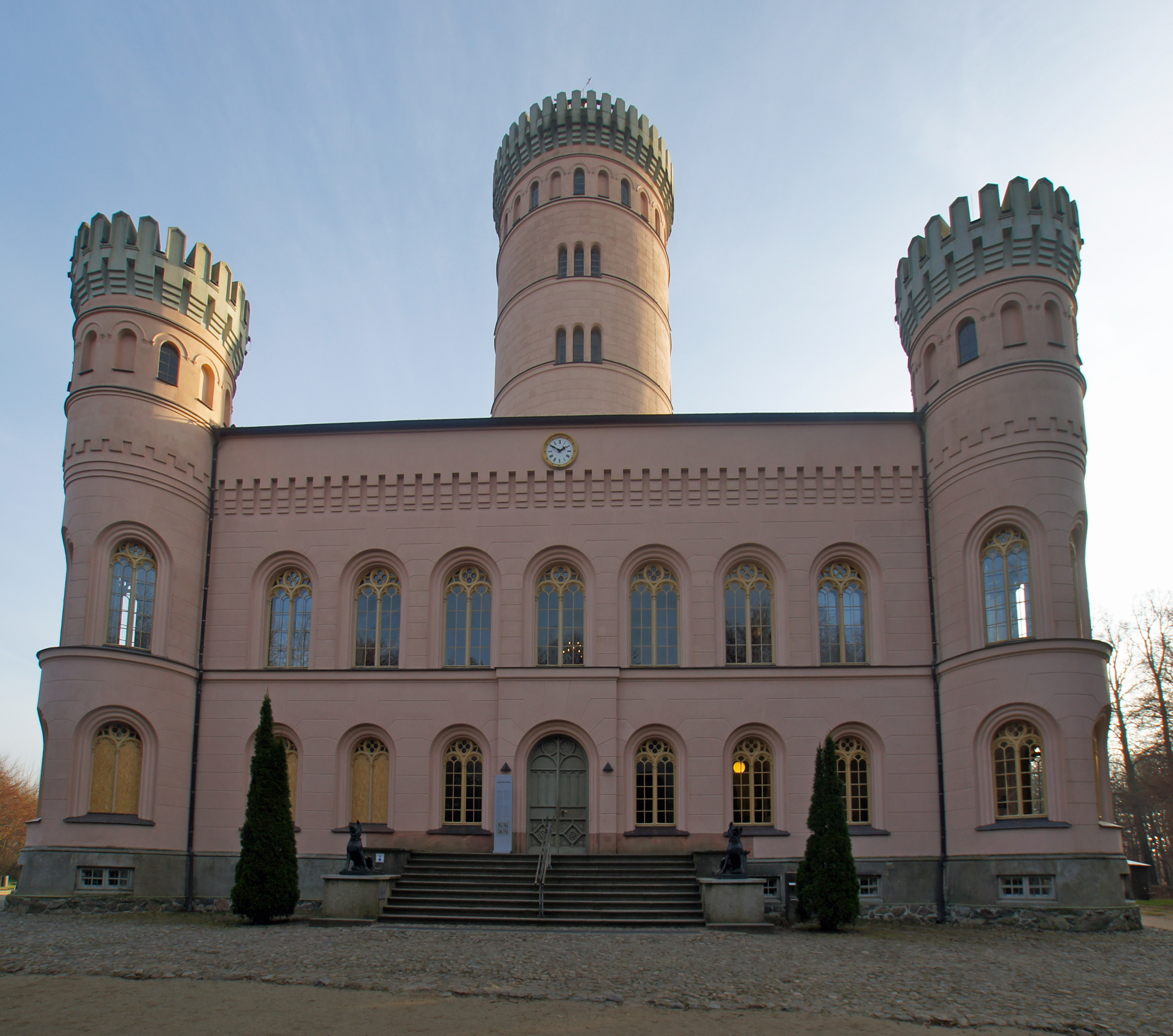 Binz, Germany: Granitz hunting hall